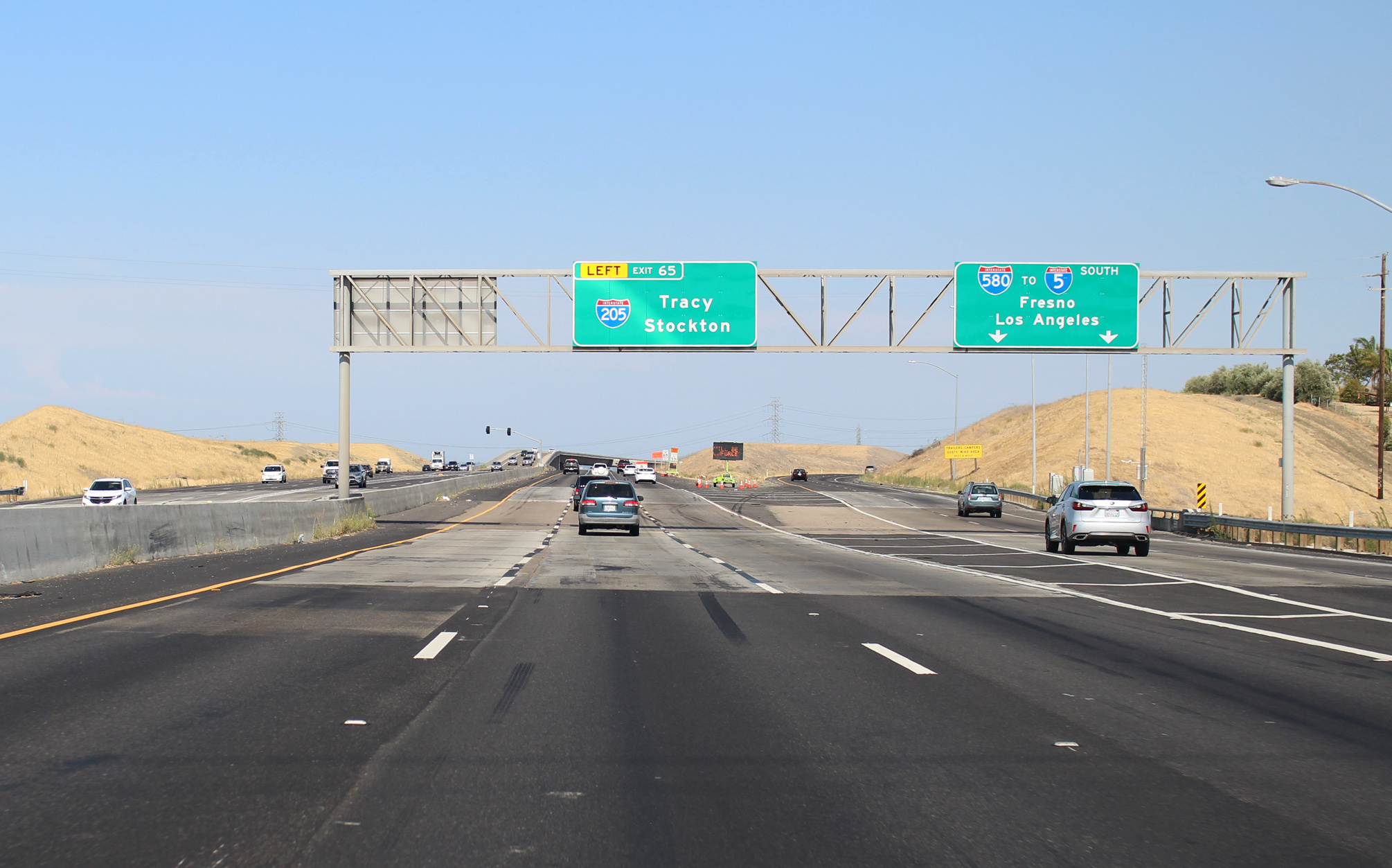 The western end of Interstate 205 near Mountain House, California as seen by eastbound traffic transitioning to Interstate 205 from eastbound Interstate 580. Photographed by user Coolcaesar on July 19, 2020.